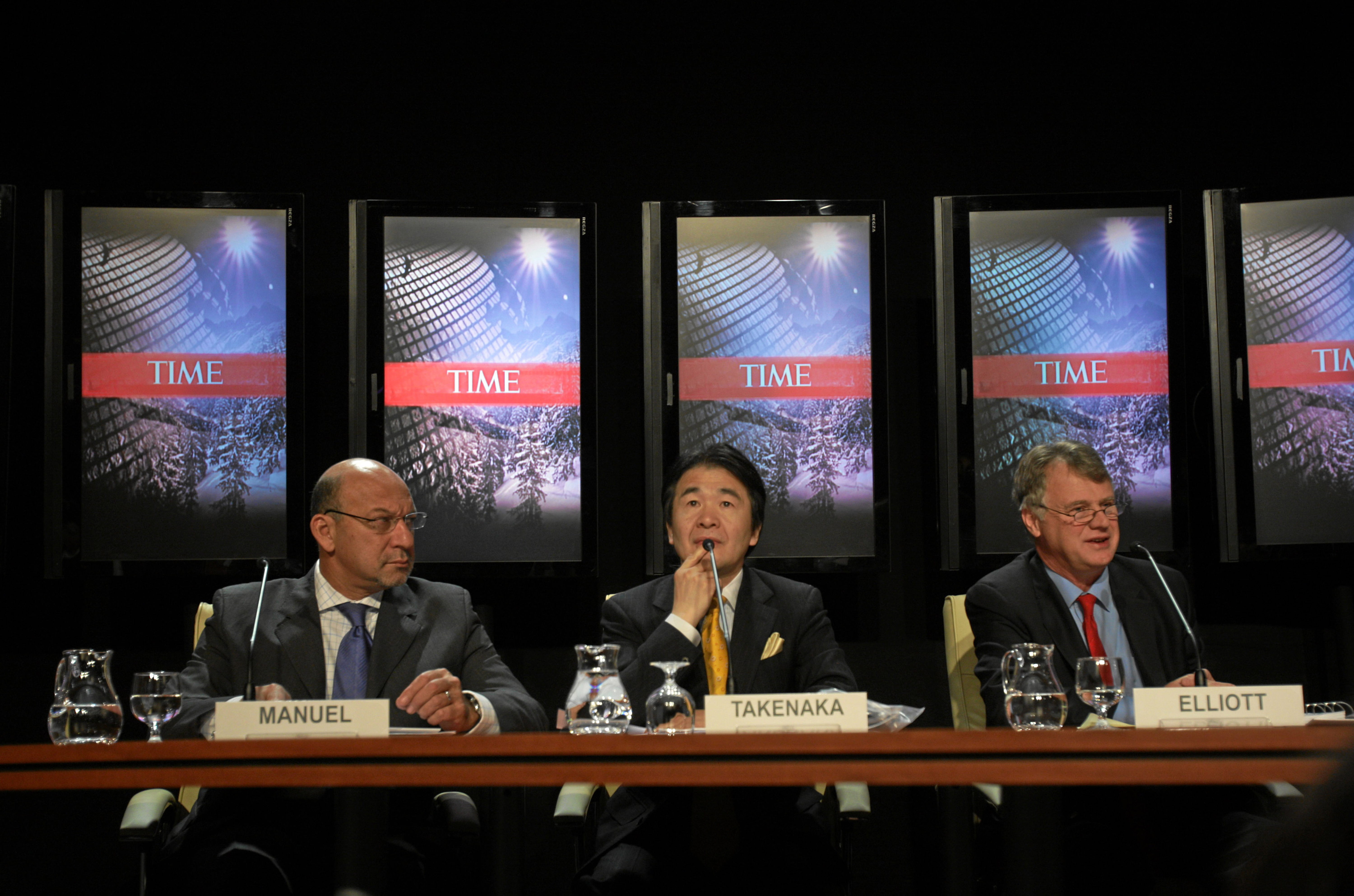 Trevor Manuel, South Africa Minister of Finance, Heizō Takenaka, Director of Global Security Research Institute of Keio University, and Michael Elliott, Editor of The Time, spoken at the World Economic Forum Annual Meeting in Davos Municipality, Graubünden Canton on January 28, 2009.